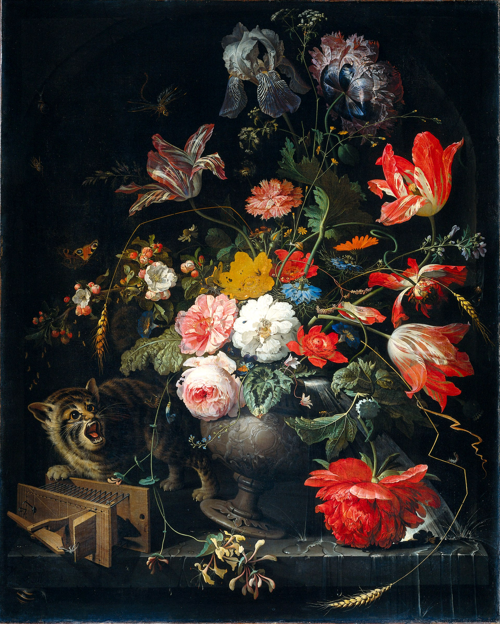 Bouquet with cat and mousetrap